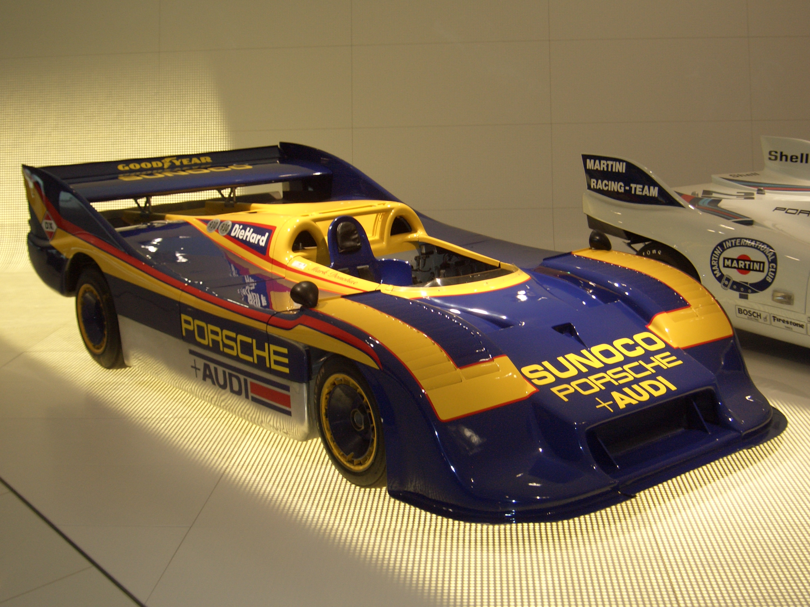 see filename for despcription - seen at PORSCHE MUSEUM in Stuttgart, Germany